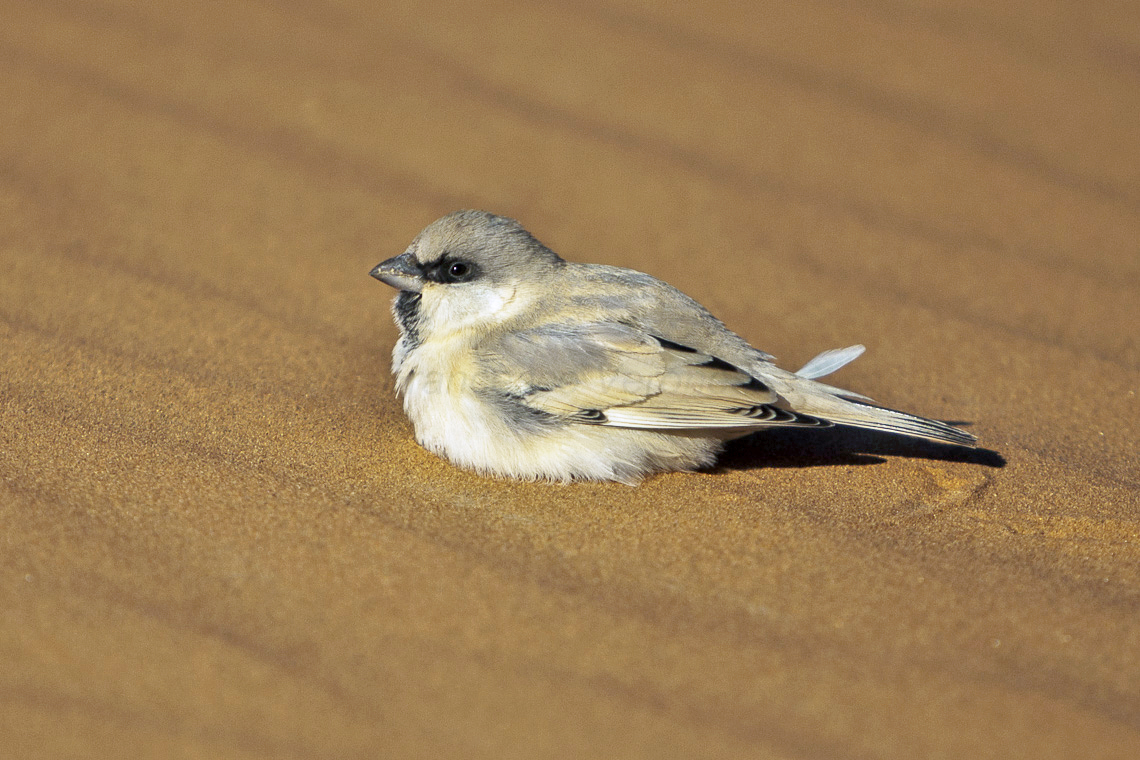 Desert Sparrow - Merzouga - Morocco_07_7156